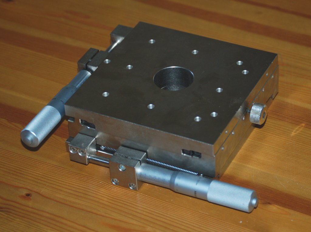 Precision cross table for a microscope.